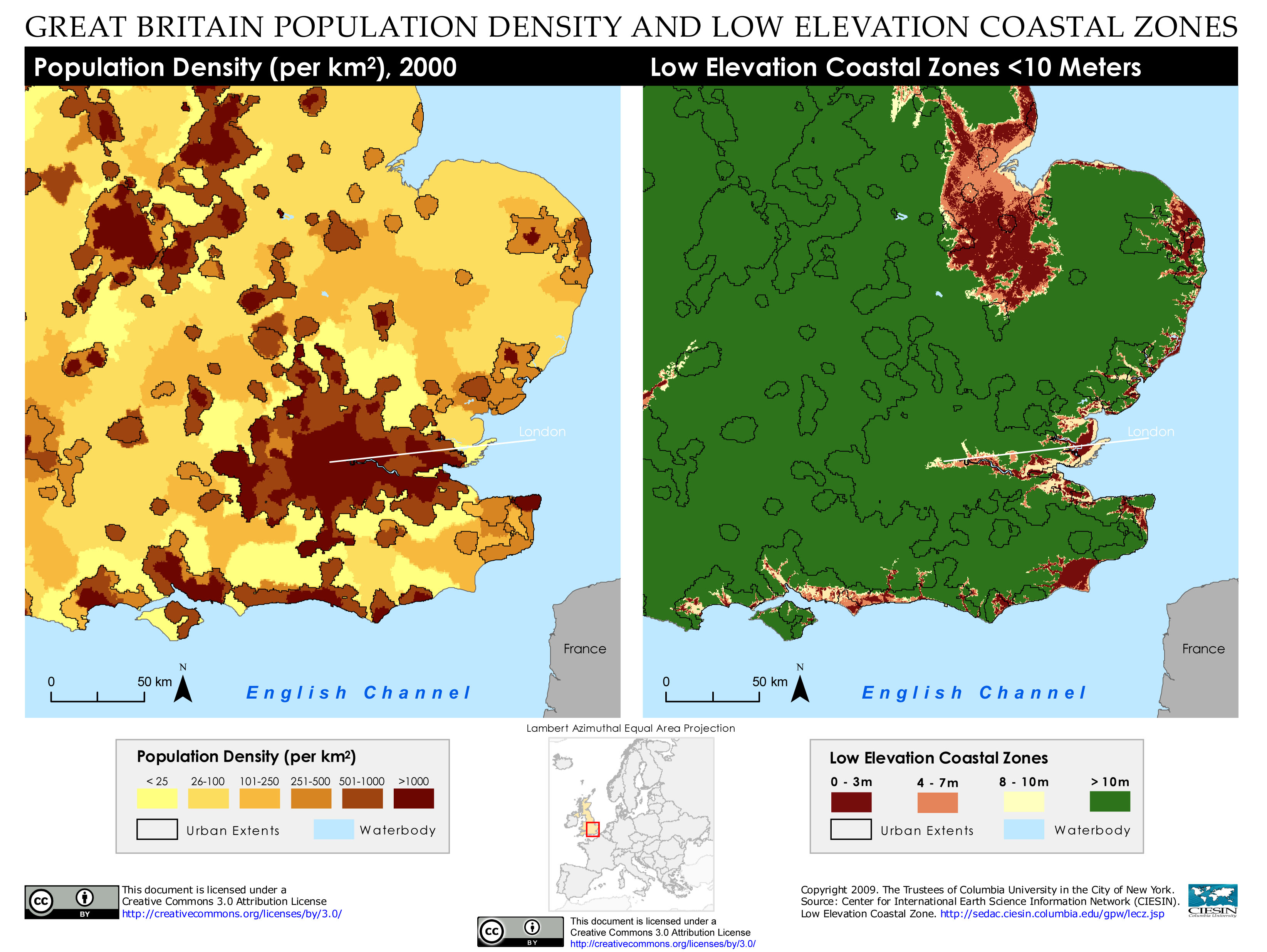 London, Great Britain: Population Density and Low Elevation Coastal Zones